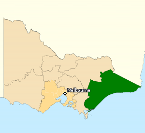 This image incorporates data that is: © Commonwealth of Australia (Australian Electoral Commission) 2009 Division of Gippsland 2010